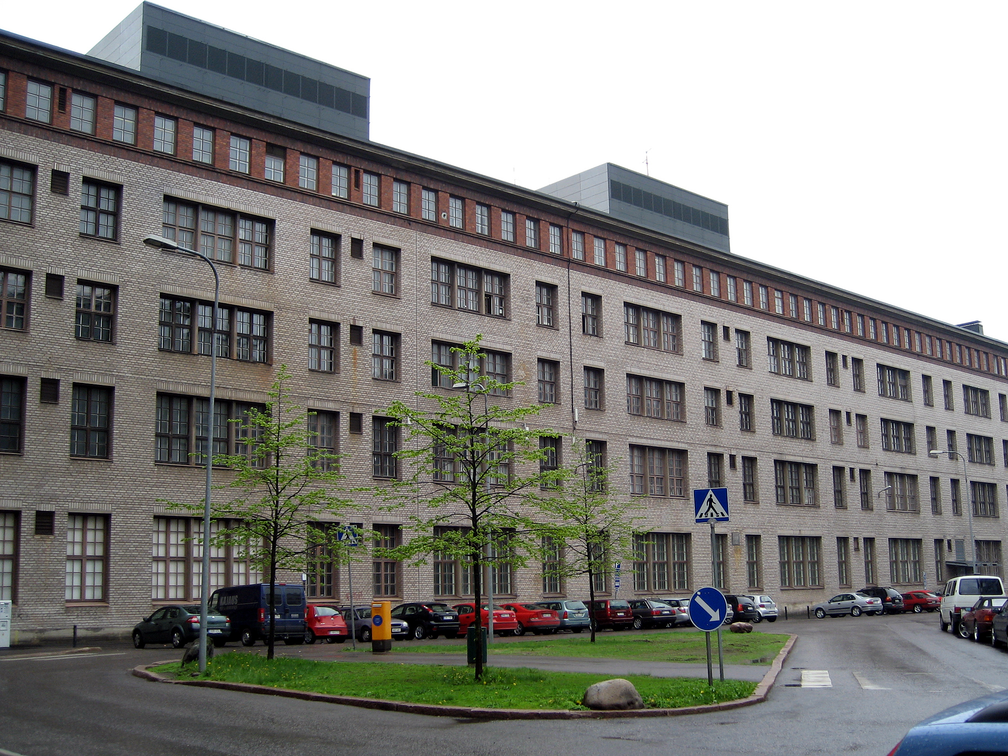 The old Cable Factory (Kaapelitehdas) Building in Helsinki, Finland. This photograph was taken on 26th May 2007. The weather was rainy. The building is nowadays a multipurpose facility with shops, restaurants and room to let.